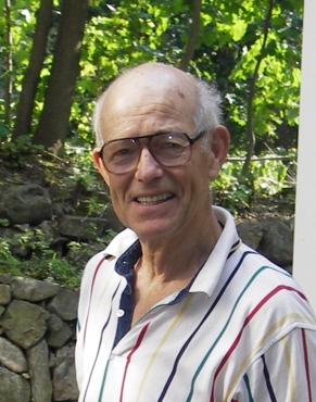 David Gordon Wilson, British-born engineer and professor, in August 2005